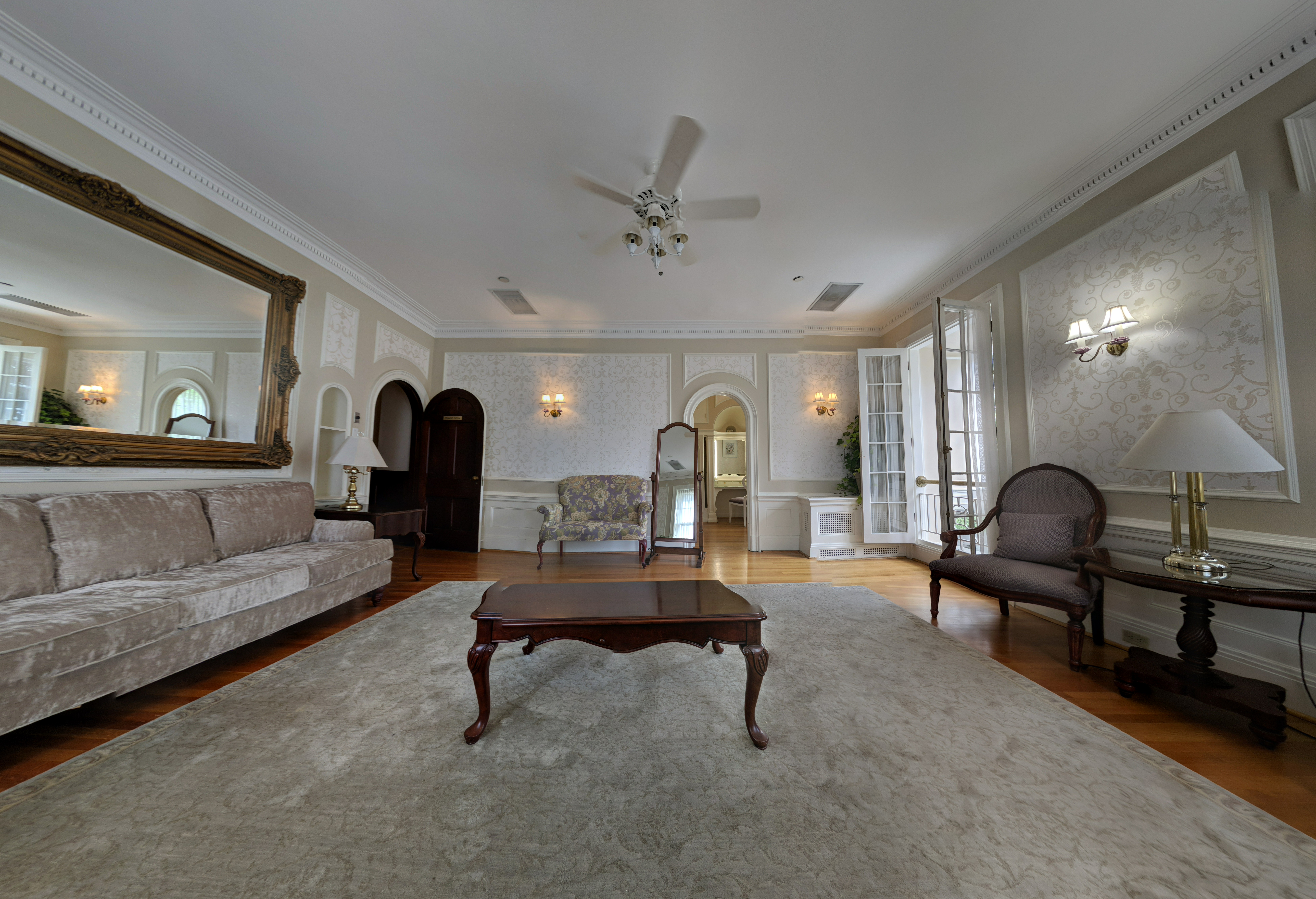 The master bedroom of Heintzman House.